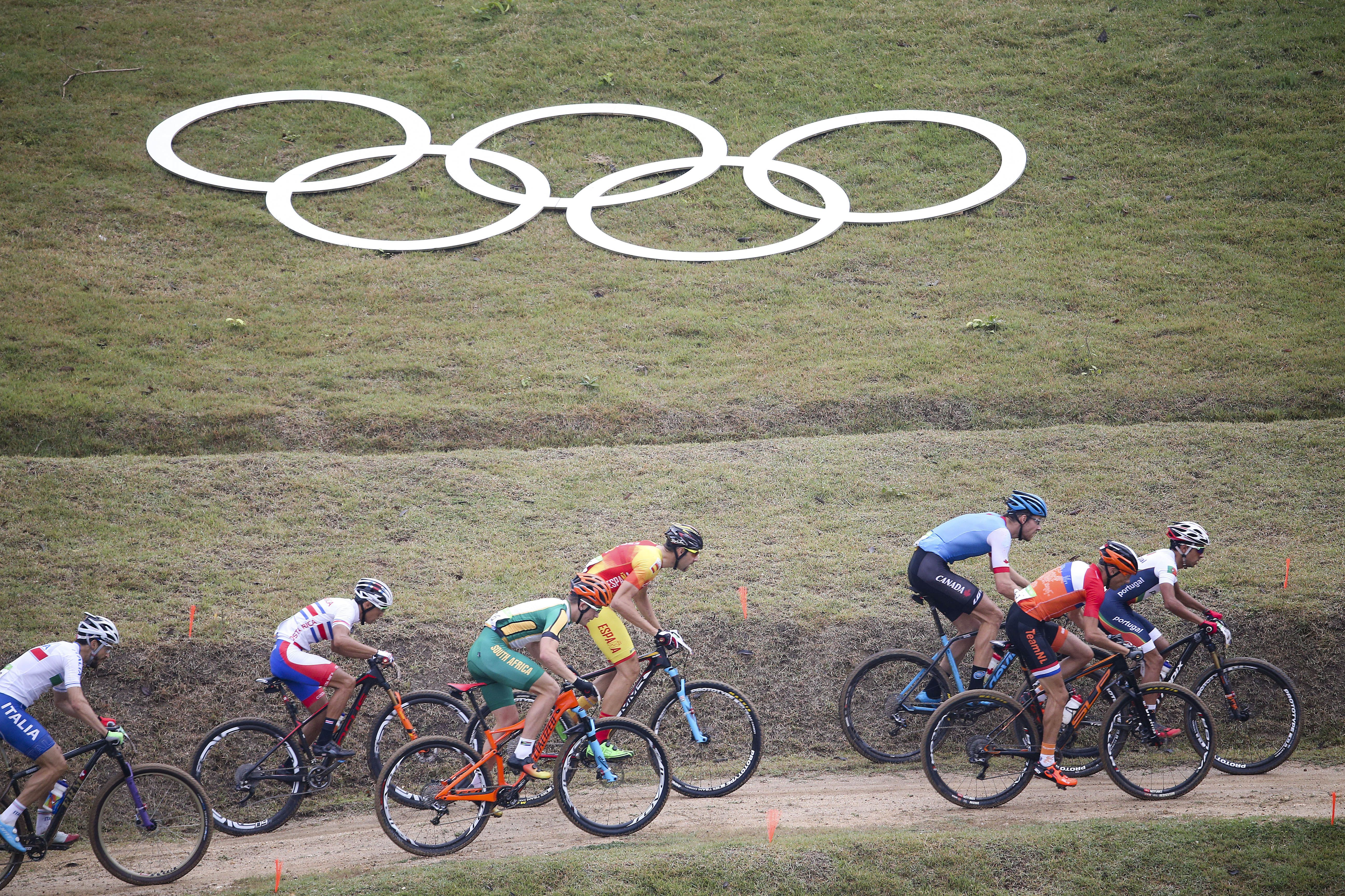 Cycling at the 2016 Summer Olympics – Men's cross-country